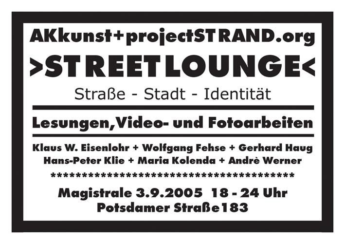 Plakat Streetlounge.2005